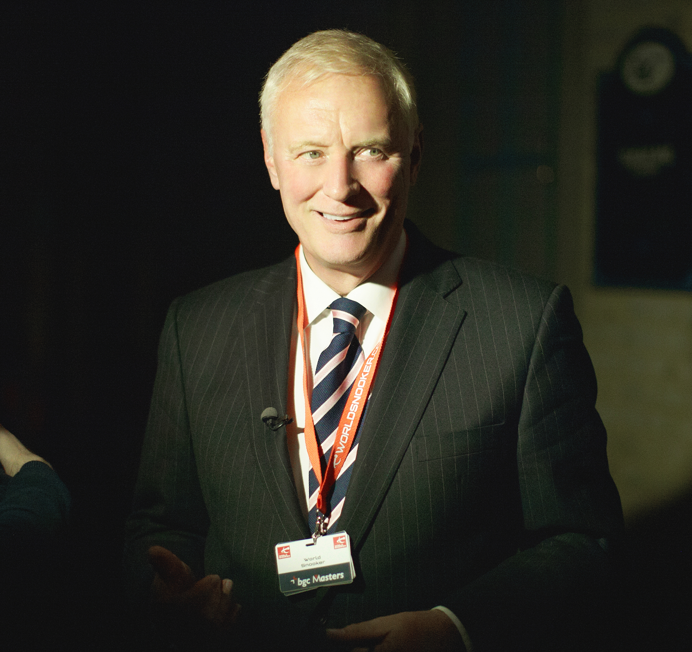 Barry Hearn during snooker tournament Masters 2012 in London